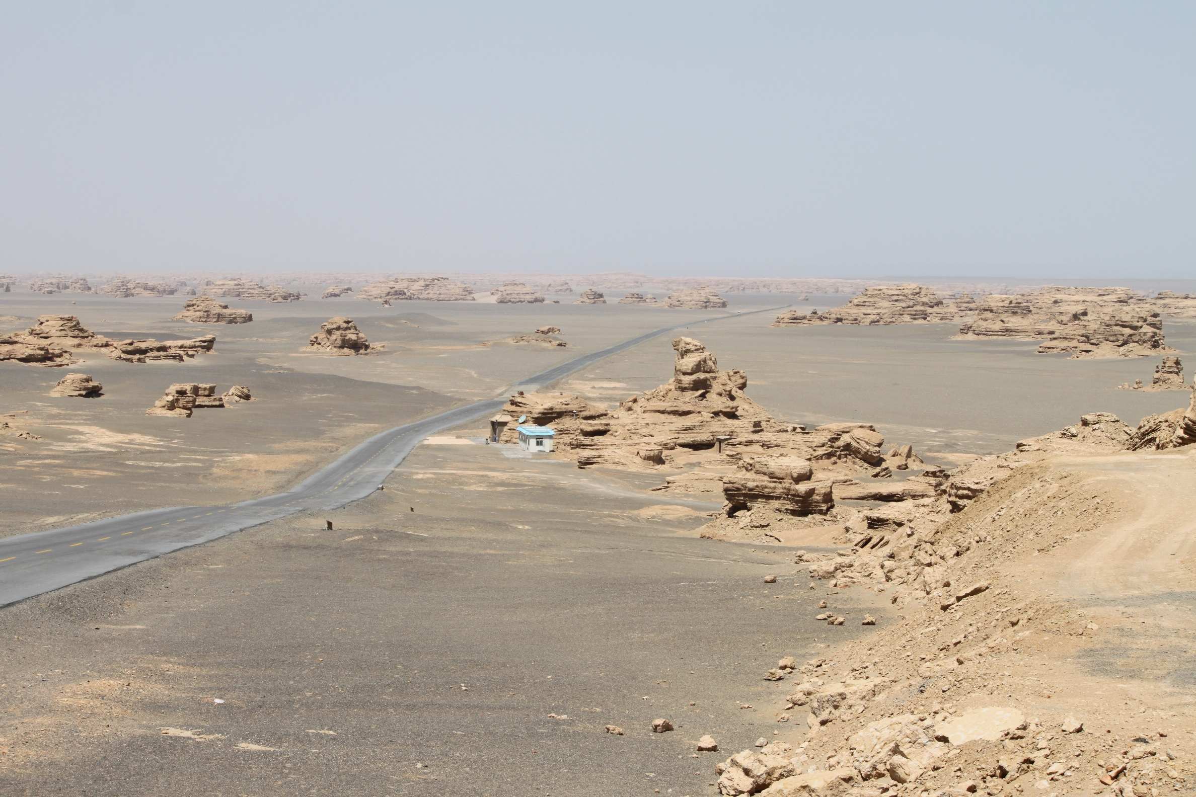 Desert landscape and rock formations in Dunhuang Yardang National Geopark — near Ganshu, in Xinjiang, western China.